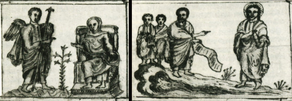 Drawing of the 'Arcus Einhardi', probably the silver foot of a crux gemmata (reliquary cross decorated with gems) formerly in the Treasury of the Basilica of Saint Servatius in Maastricht (lost since the 18th c.). Drawing by unknown artist, 17th c, now in the Bibliothèque nationale de France in Paris. Details of the two sides of the arch, depicting scenes from the New Testament: the Annunciation and John the Baptist pointing our Christ as the Messiah.